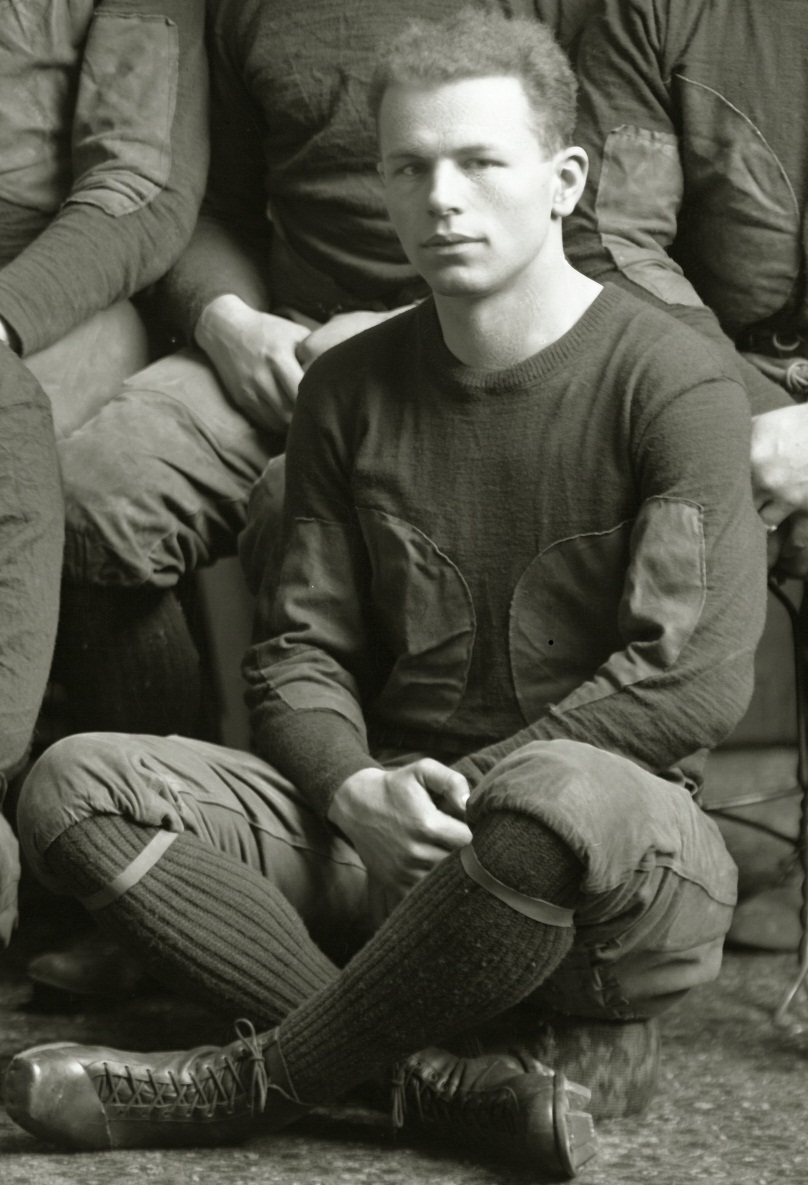 Photograph of Robert T. "Ray" Knode